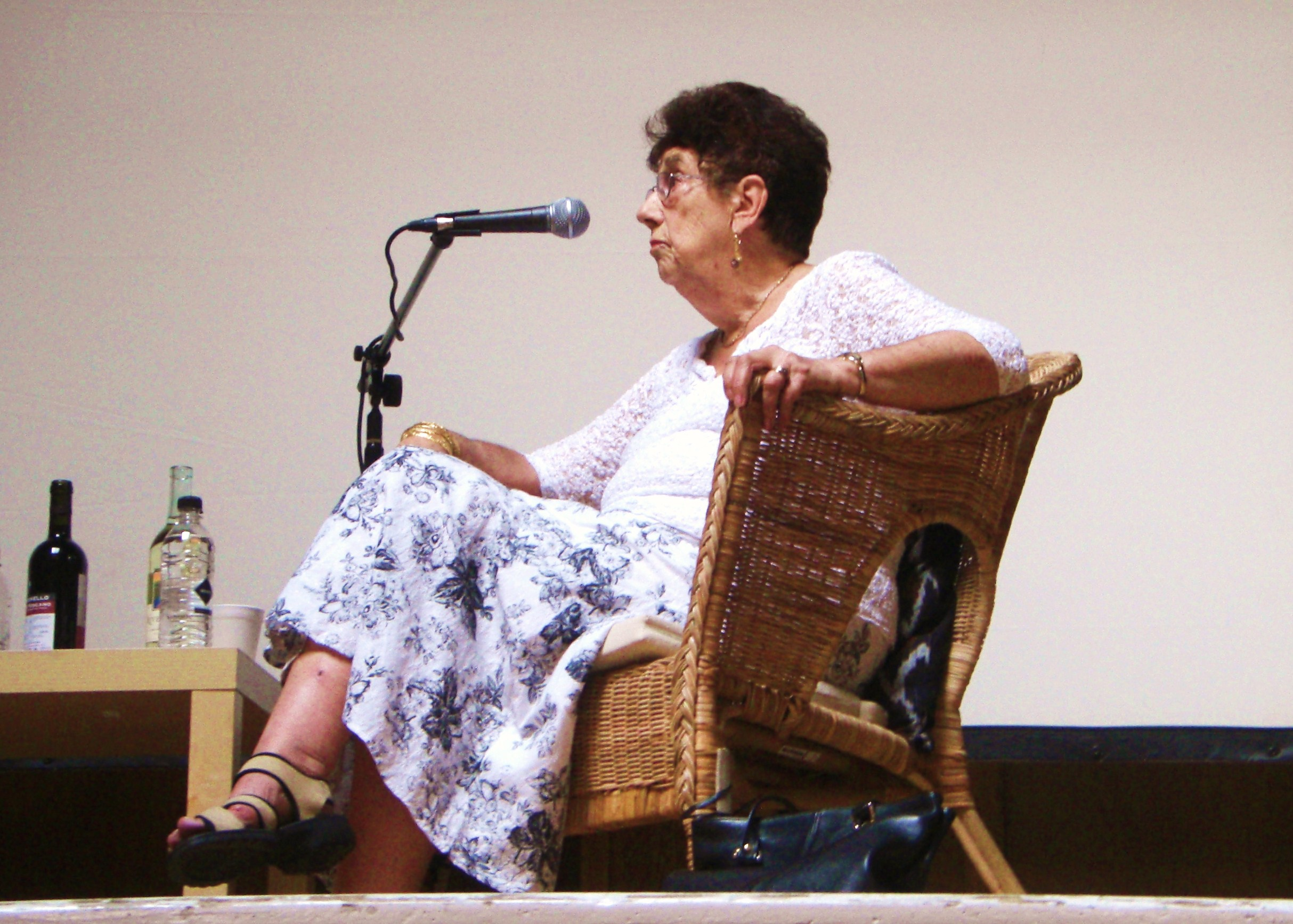 A photograph of Wiccan High Priestess Lois Bourne at the Charge of the Goddess Conference 2010.